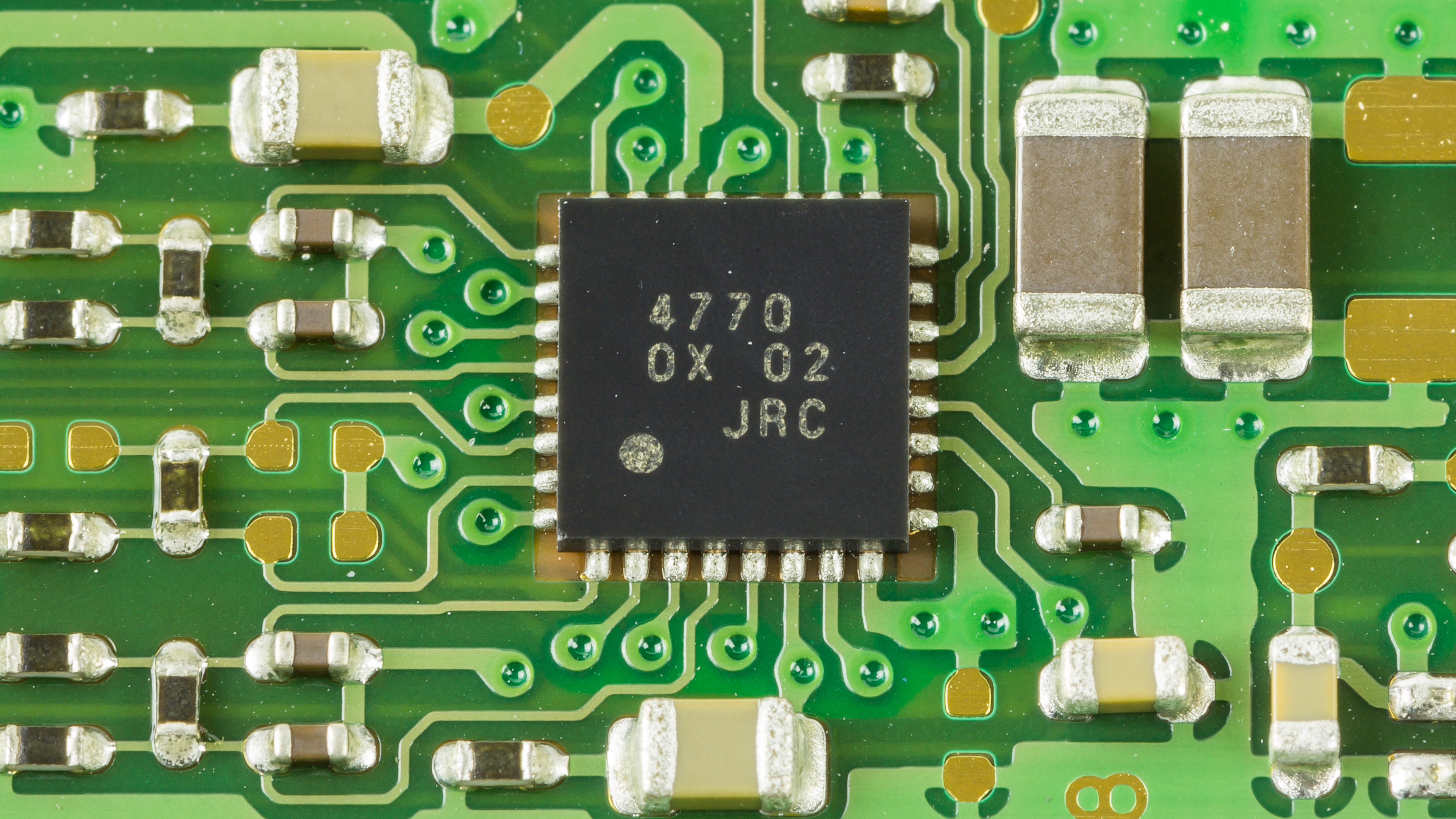 Motorola TFT LED Display 72014152001AA - IC 4770 (function and manufacturer unknown)